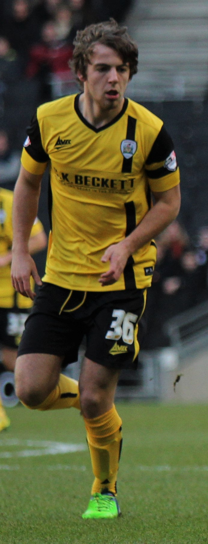 Daniel Powell of MK Dons and George Williams of Barnsley battle for the ball during the League 1 meeting